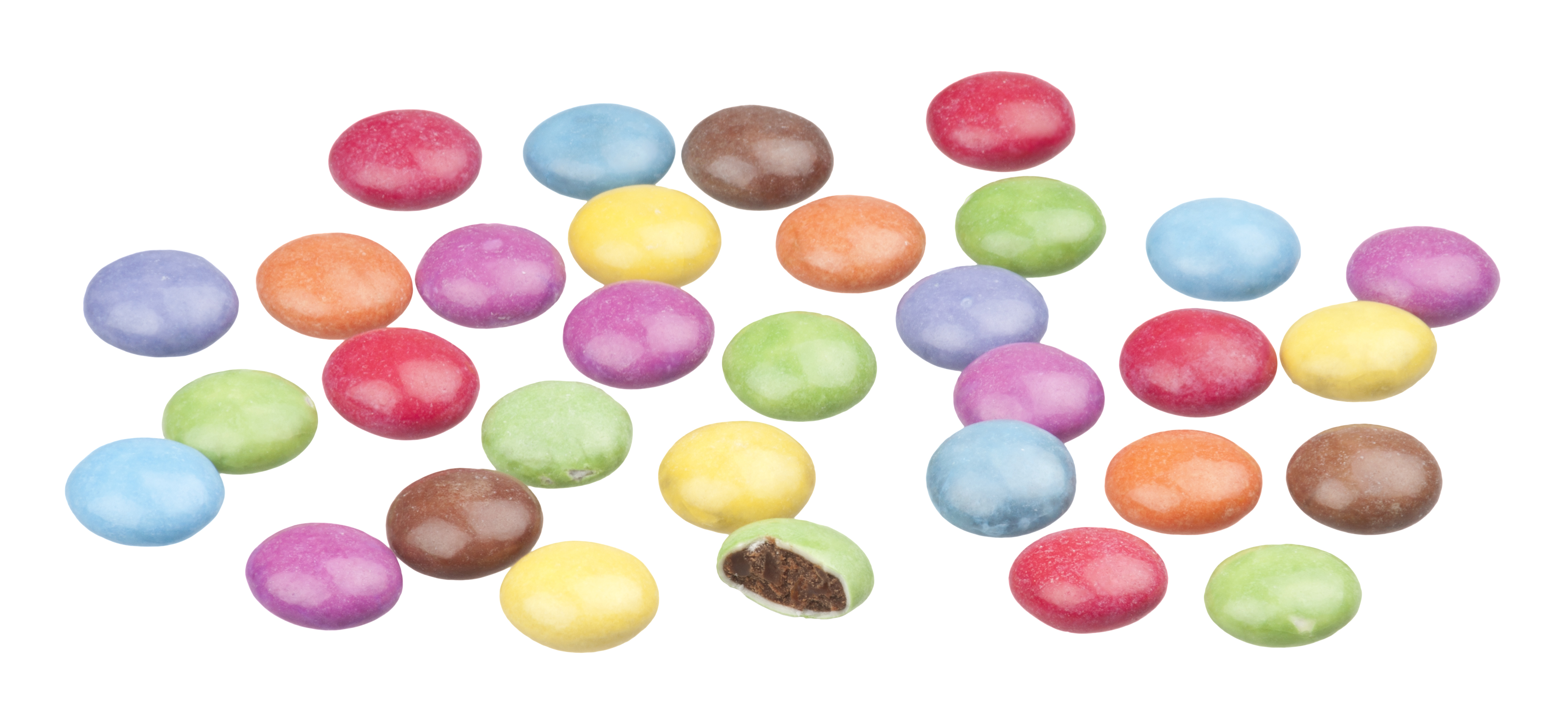 Smarties (UK) candies. Similar to American M&Ms.